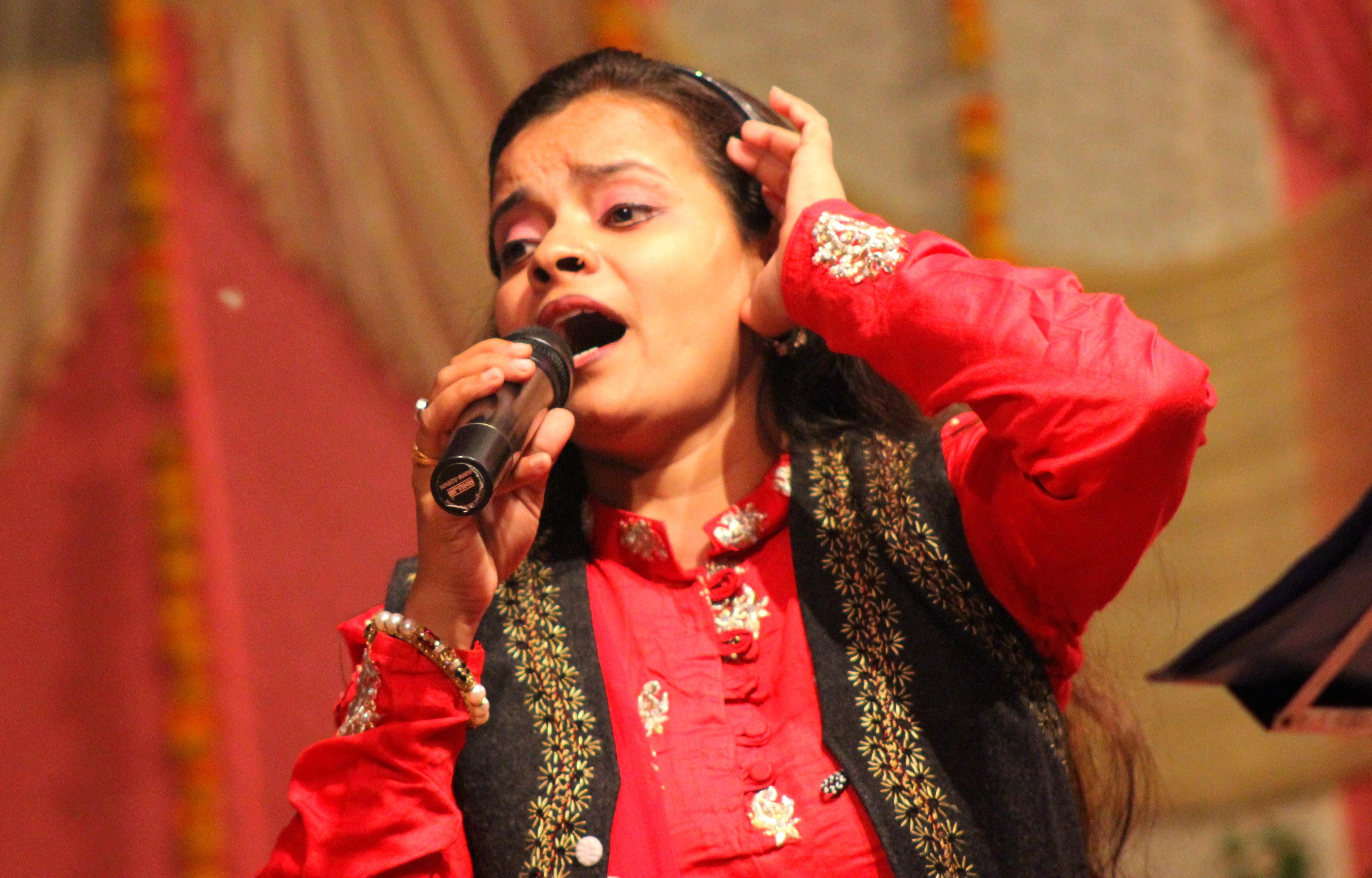 Lokgaayika